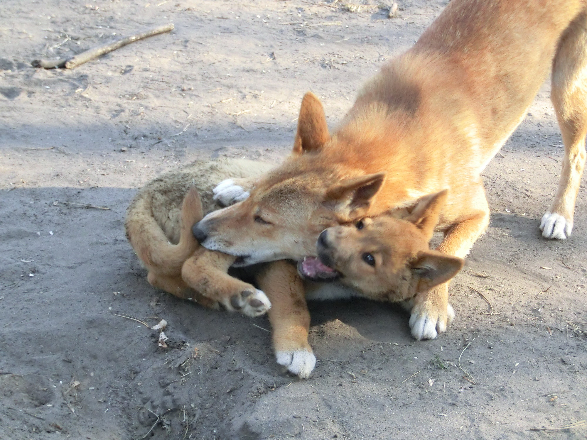 Playing, I am not sure whether this one is the mother or the older sister.